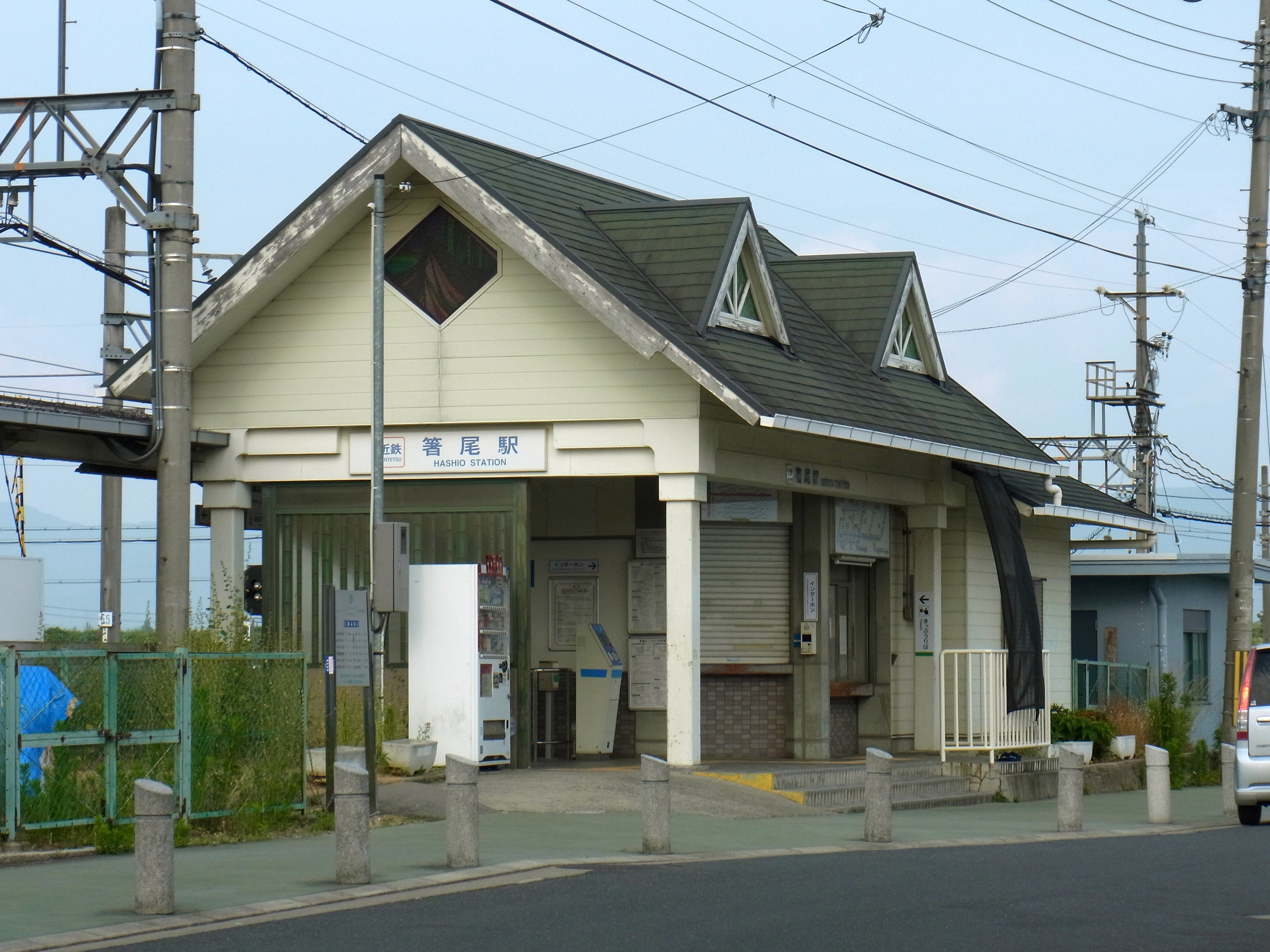 近鉄田原本線 箸尾駅 Hashio station 2012.6.07